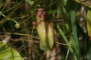 Pitcher plant, Cape York, Queensland, Australia